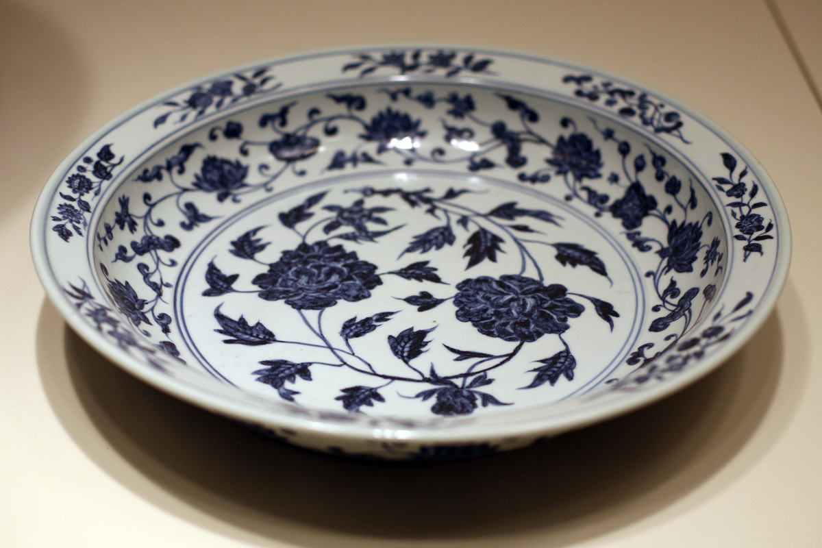 Plate, 1368-1644. Porcelain, underglaze, cobalt-blue decoration. Brooklyn Museum, Gift of Samuel P. Avery, by exchange, 51.85. Wikipedia Loves Art at the Brooklyn Museum This photo of item # [1] at the Brooklyn Museum was contributed under the team name "shooting_brooklyn" as part of the Wikipedia Loves Art project in February 2009. Brooklyn Museum The original photograph on Flickr was taken by shooting brooklyn—please add a comment to the original Flickr page whenever a use has been made on Wikipedia or another project. Project galleries on Flickr: this institution, this team